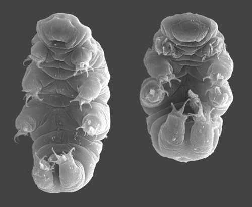 Hypsibius dujardini, SEM by Willow Gabriel